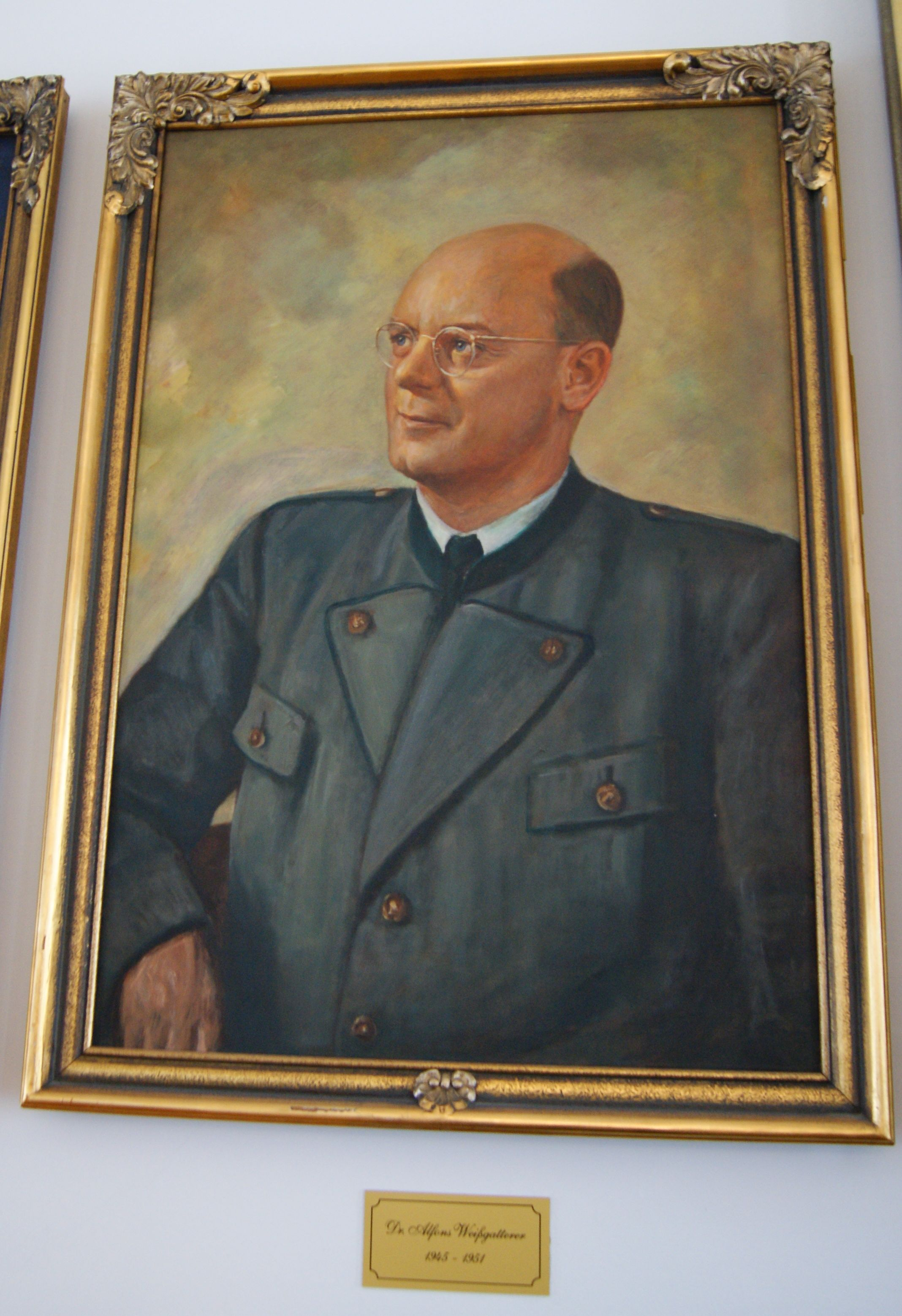 Alfons Weißgatterer, head of the Provincial Government and the authority in charge of indirect federal administration of Tyrol.